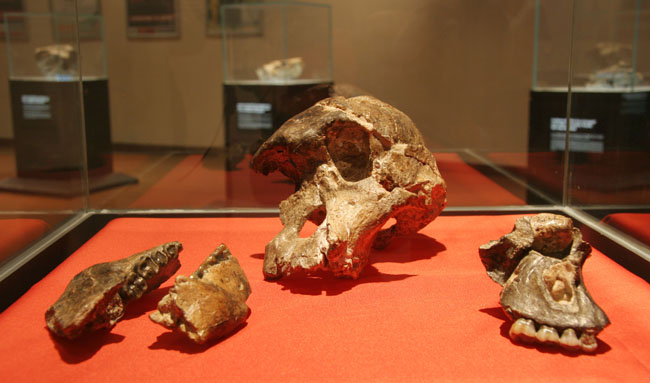 The cranium of an Australopithecus africanus, Stw 505, discovered in 1989 at Sterkfontein Caves in the Cradle of Humankind. A relatively complete cranium of an Australopithecus africanus, Stw 505 is the most complete hominid cranium discovered in Sterkfontein since Robert Broom’s excavations uncovered “Mrs Ples” in 1947.